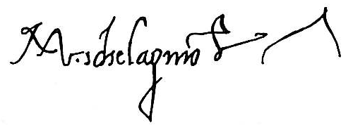 autograph of the painter Michelangelo